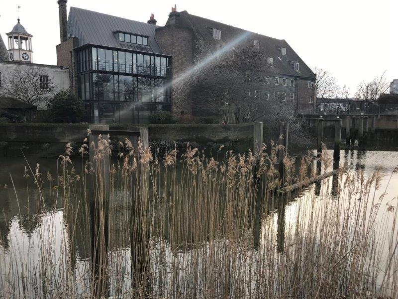 Mill House taken from across the River Lea with reeds in the foreground, in Three Mills